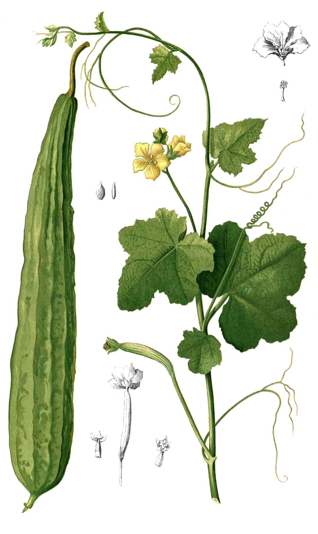 Plate from book